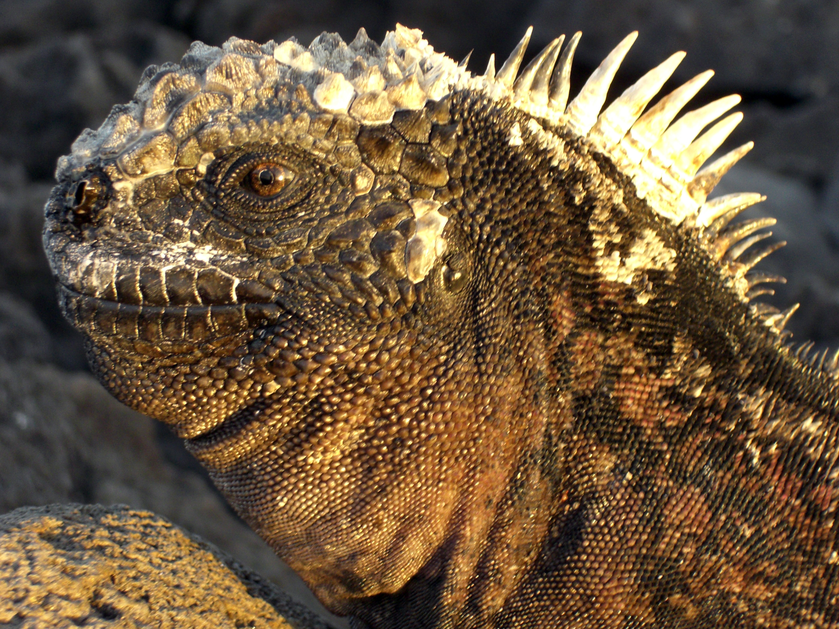 Meerechse - Amblyrhynchus cristatus - Galapagos 2006